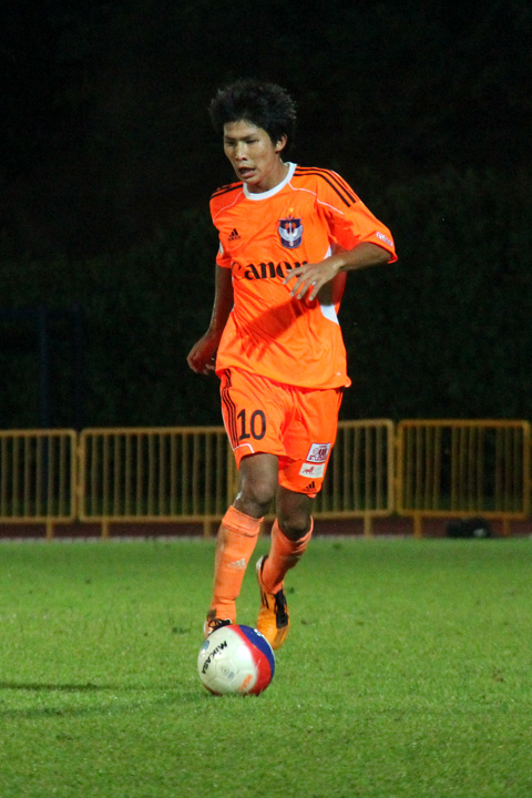 Sho Kamimura playing against Hougang United in an S.League fixture at Hougang Stadium on 13 April 2012.